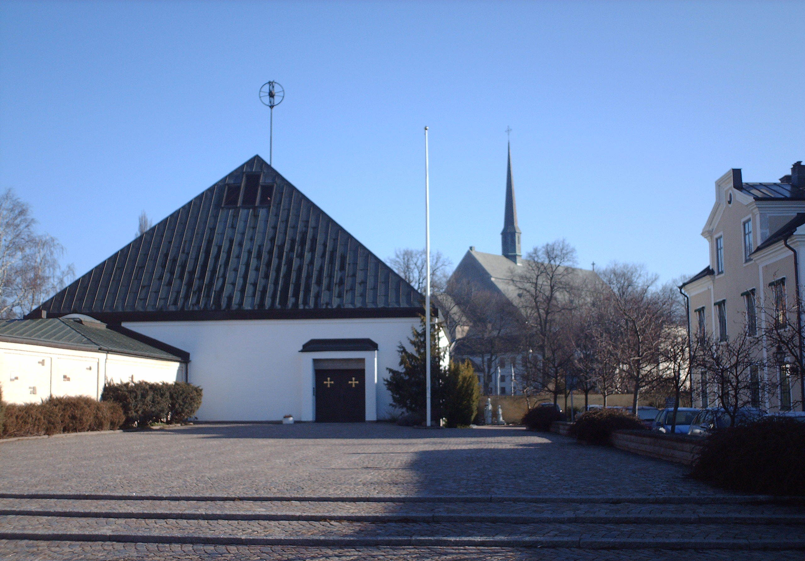 The new and old abbey in Vadstena, Sweden